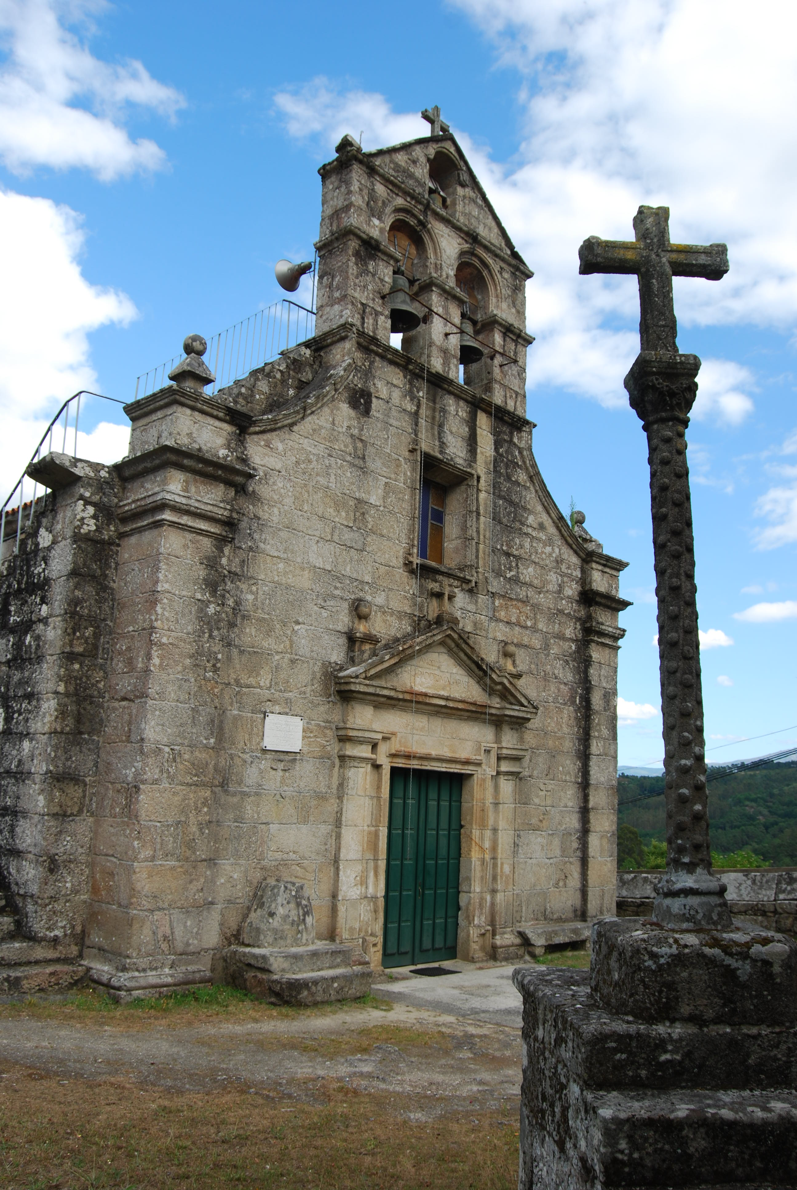 Church and wayside cross from Filgueira, Crecente.